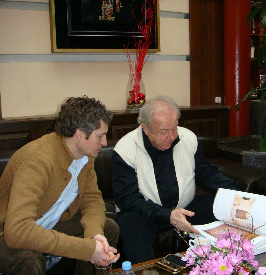 Working on new project with Zurab Tsereteli